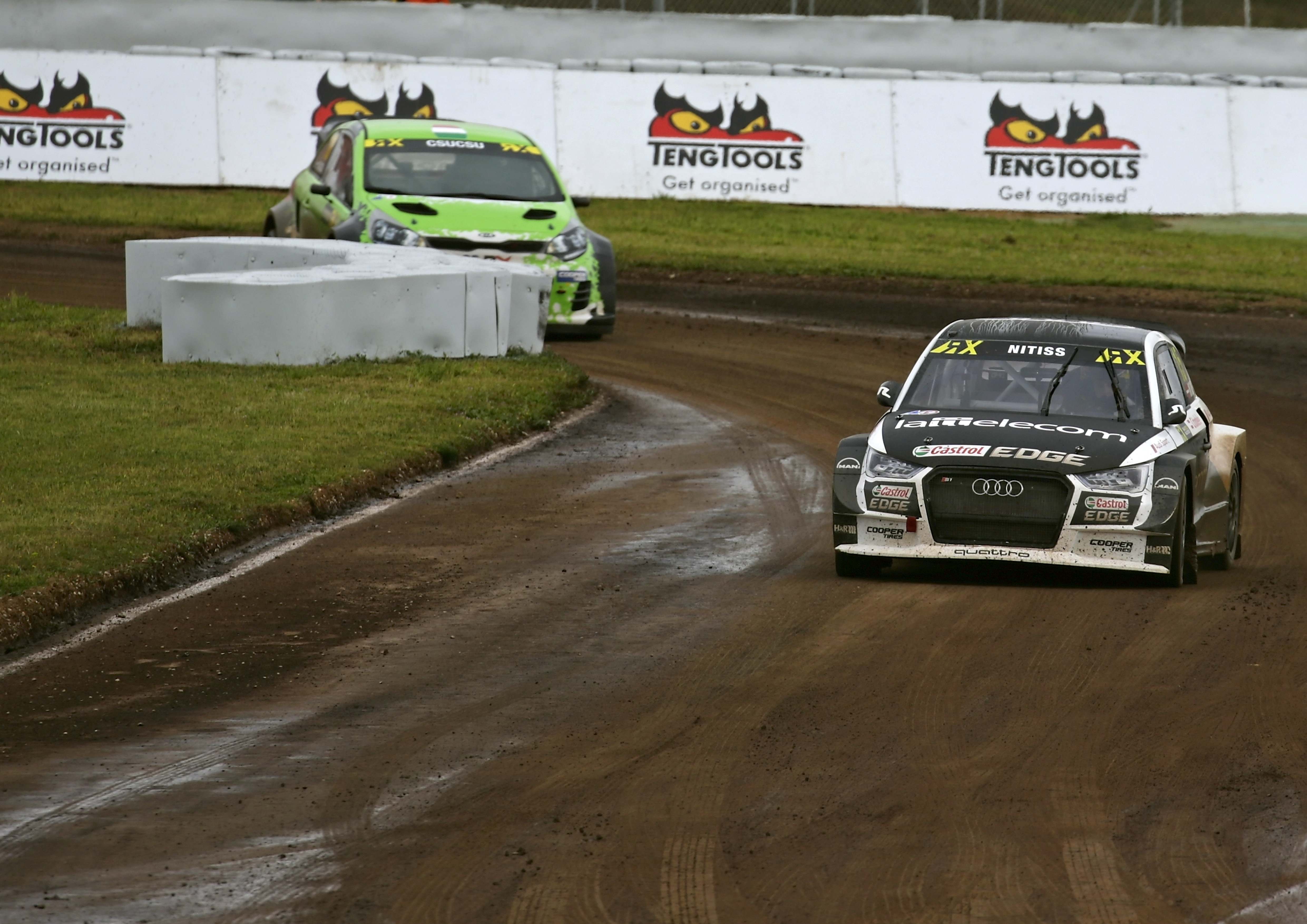 2017 FIA World Rallycross Championship // Round 01, Barcelona // Credit: EKS/Bodo Kraehling